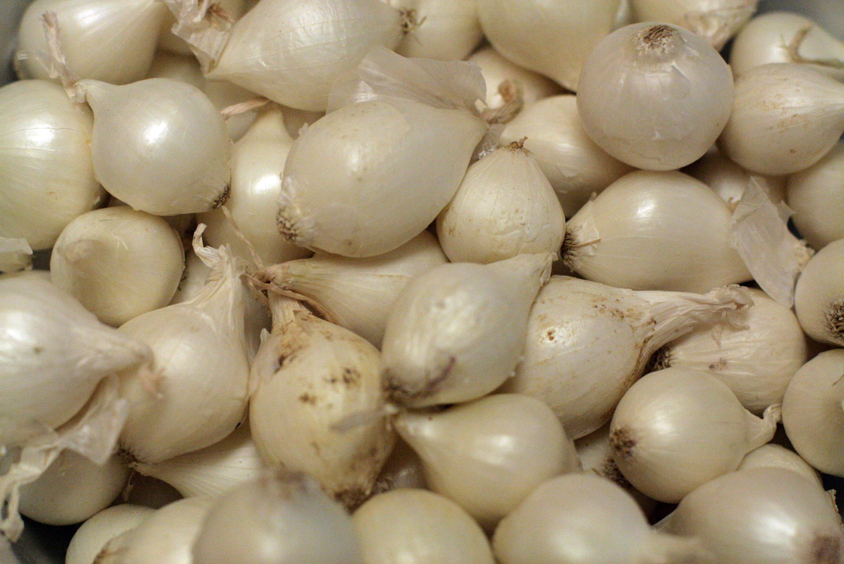 Pearl onions